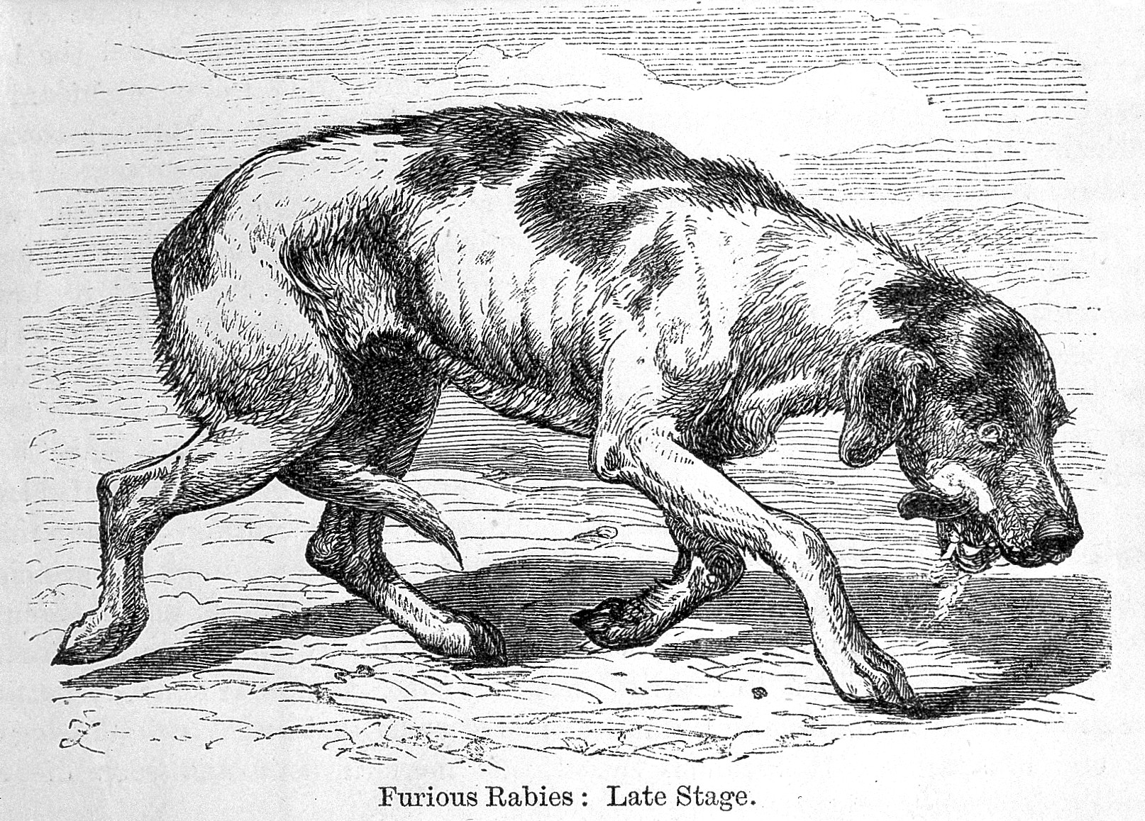 Furious rabies, late stage General Collections Keywords: hydrophobia; veterinary diseases; Rabies; Fleming, George